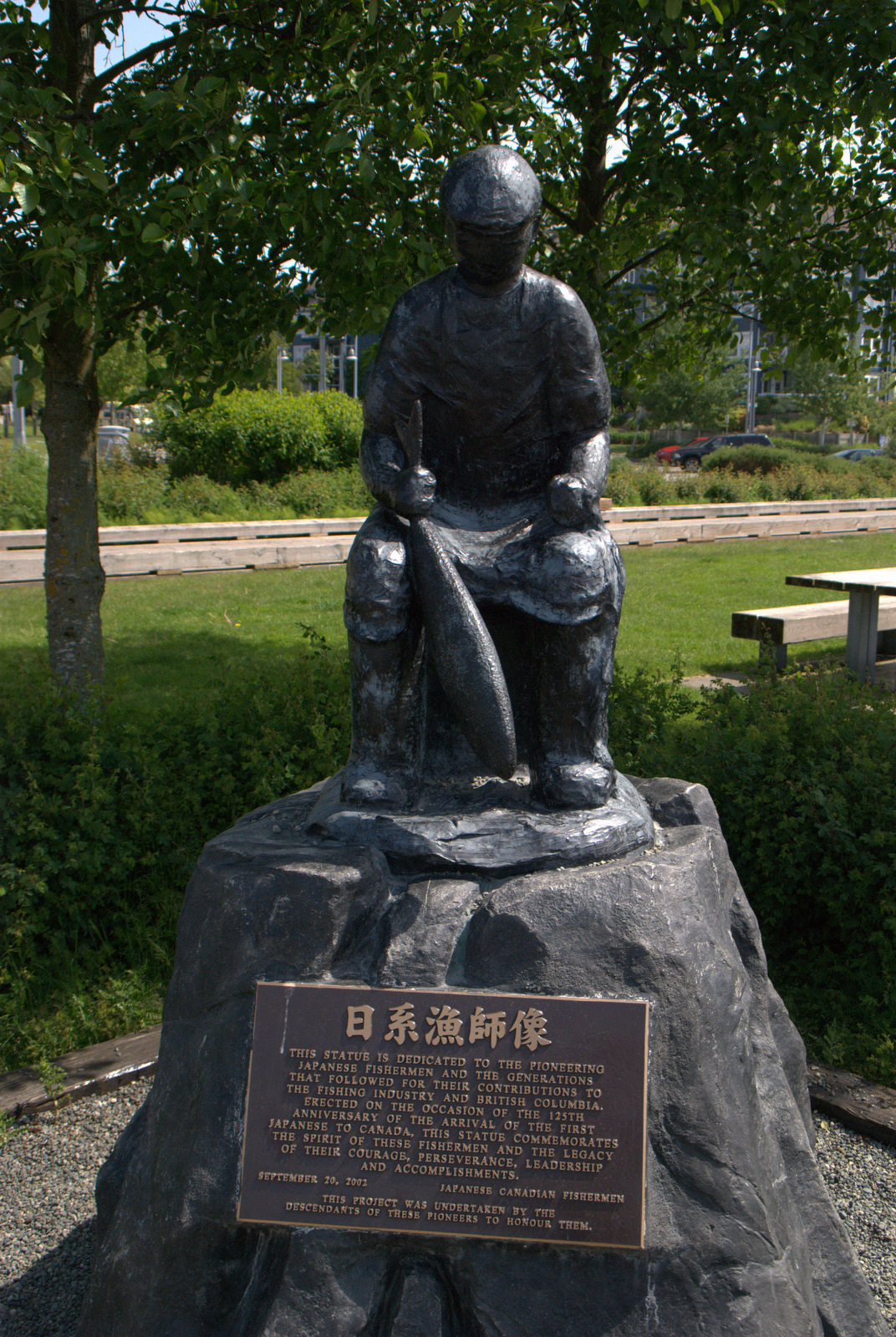 Steveston, BC